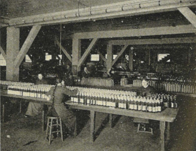 "Tinfoiling Rainier Beer" from brochure Seattle and the Orient (1900), part of a set of photos collectively captioned "Where Rainier Beer is made."